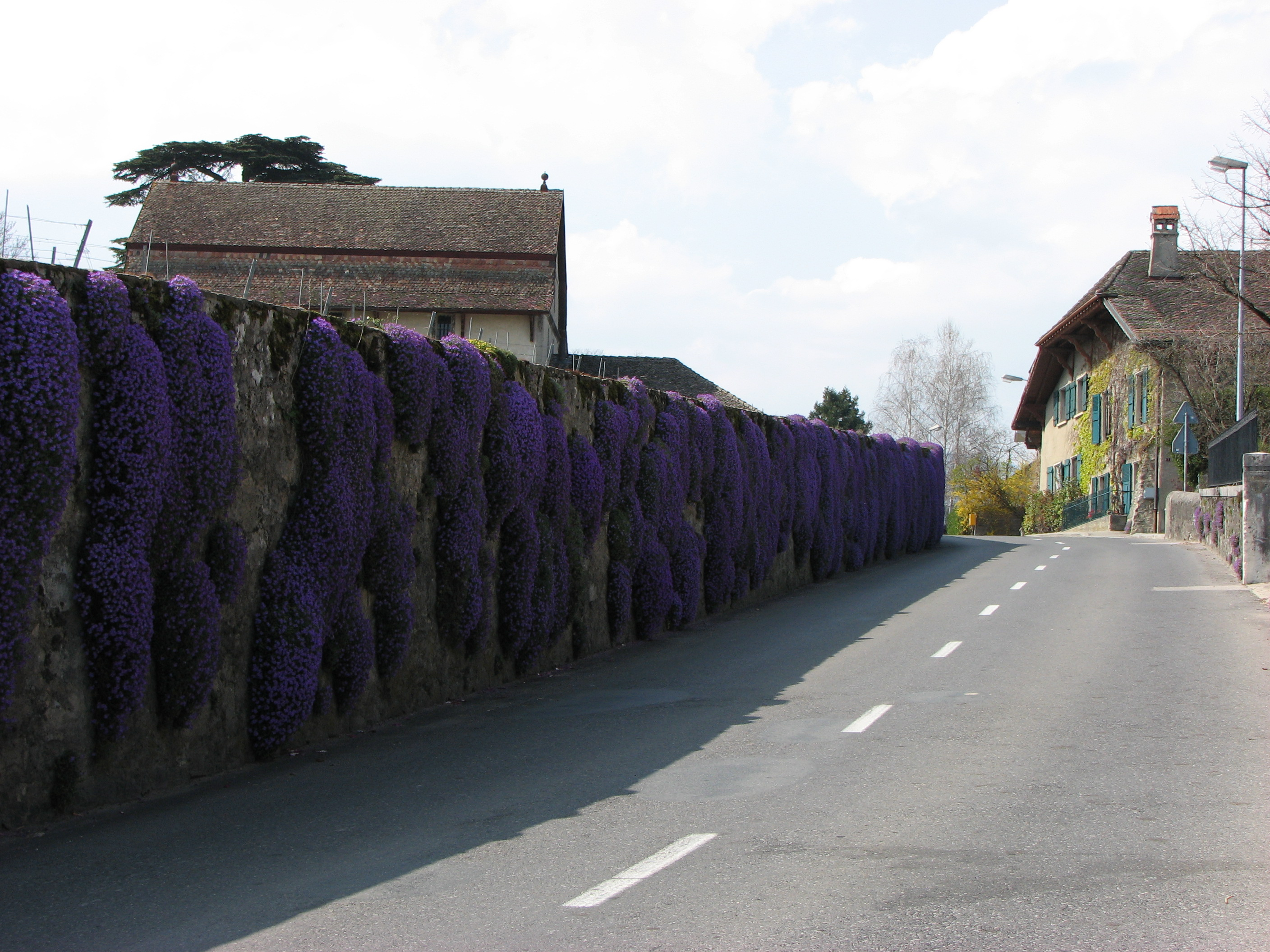 Wall of "Campanula Muralis" in the village of Duillier Switzerland